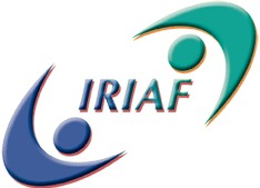 Logo of IRIAF - Institut des Risques Industriels, Assurentiels et Financiers (Niort, France) - a component of the University of Poitiers